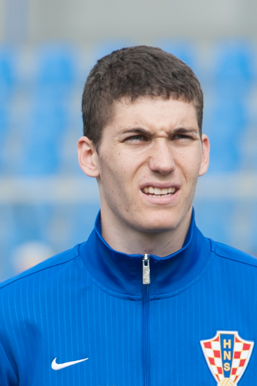 European Under-19 Championships 2015 Elite Round, Austria vs. Croatia, 28/03/2015 Wiener Neustadt, Lower Austria